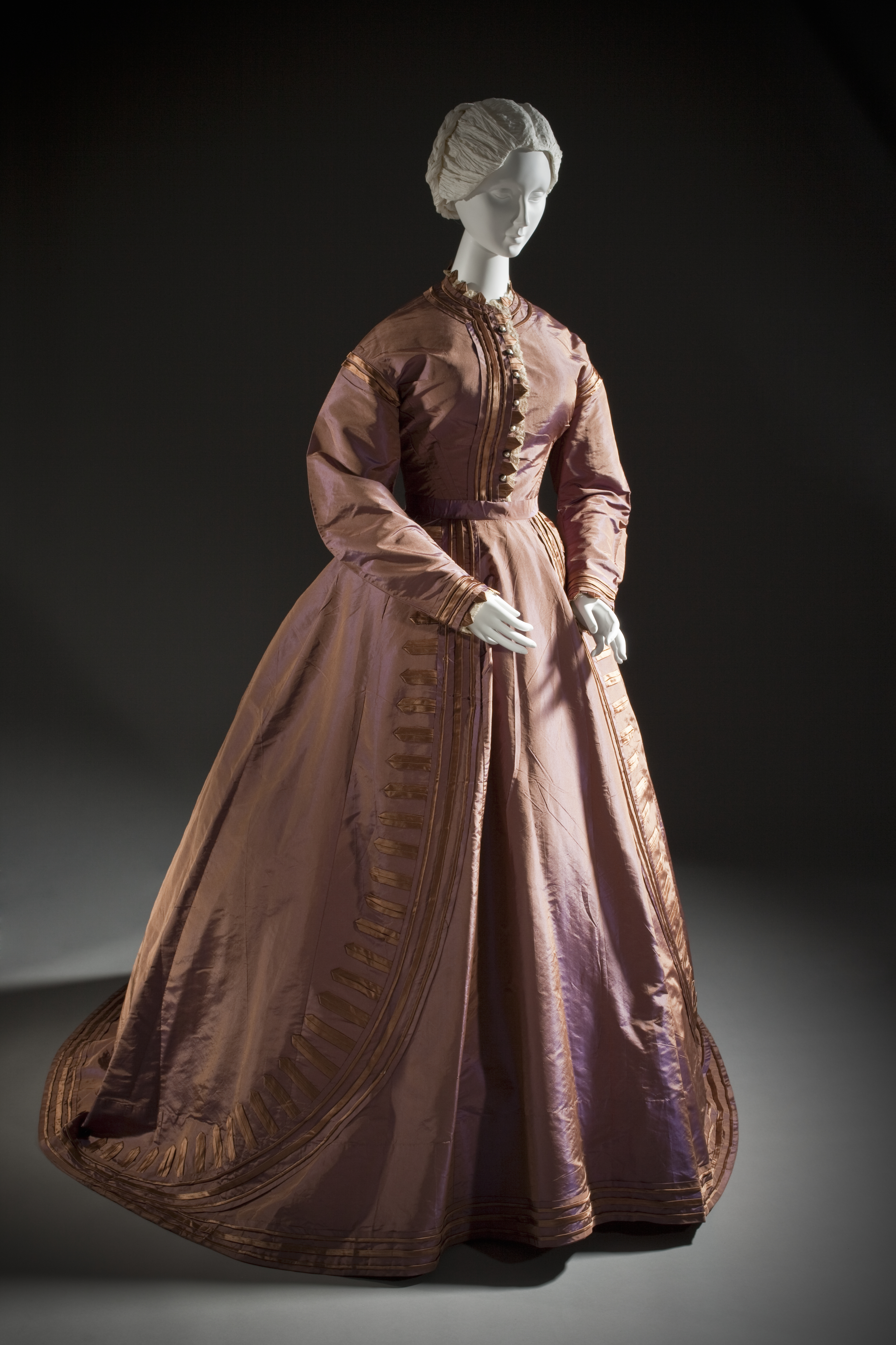 Woman's dress (bodice and skirt), shot (changeable) silk taffeta trimmed with silk satin and machine-made lace, England, c. 1865